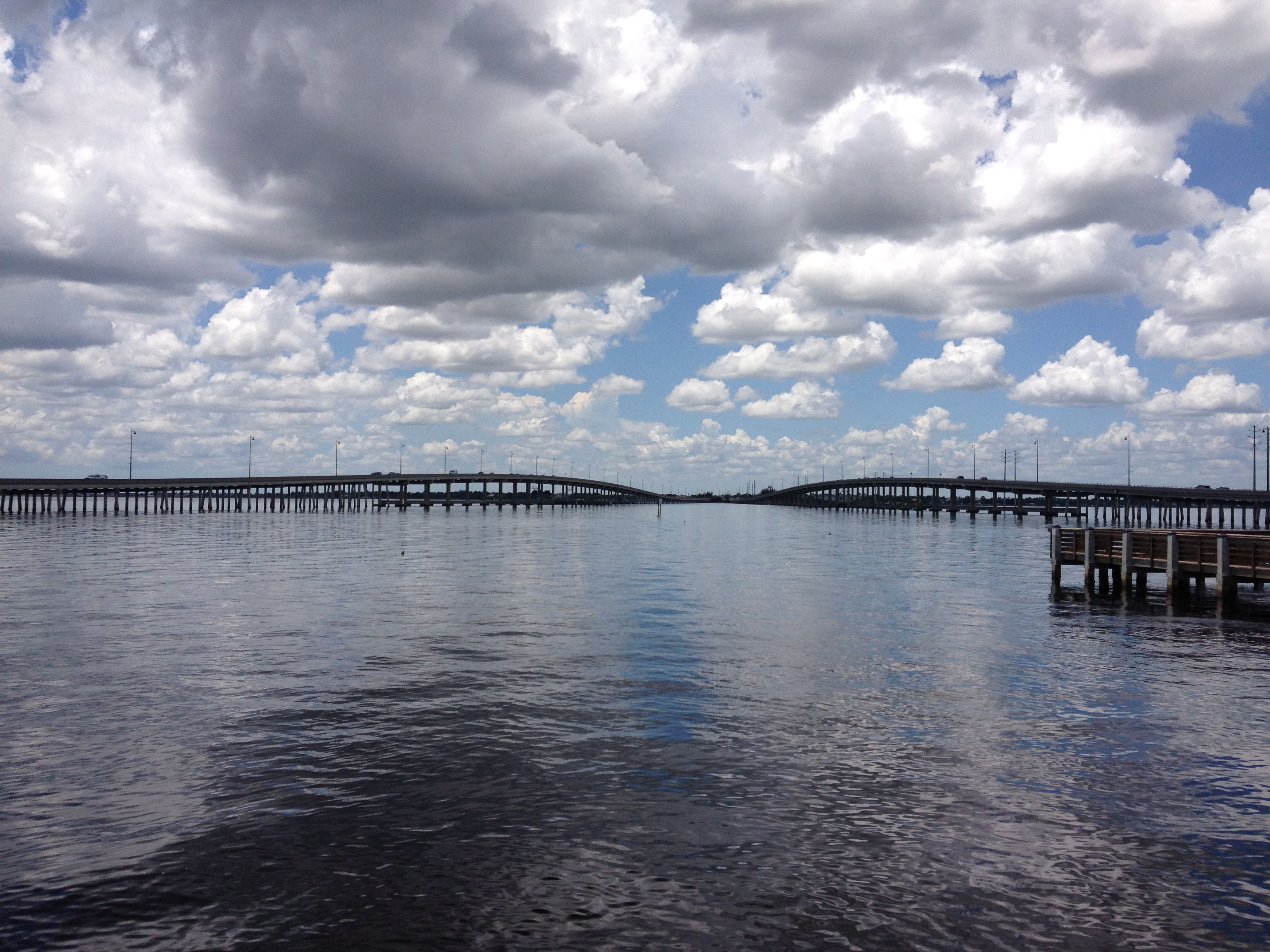 Barron Collier and Albert W. Gilchrist Bridges from Harborwalk in Punta Gorda